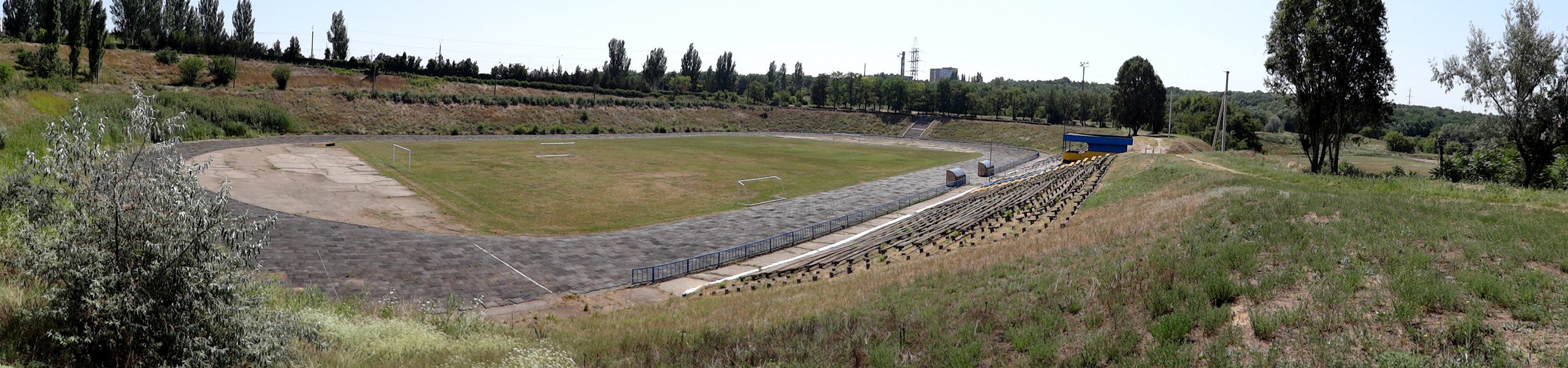 Hirnyk Stadium in Dniprorudne, Vasylivka Raion, Zaporizhia Oblast, Ukraine